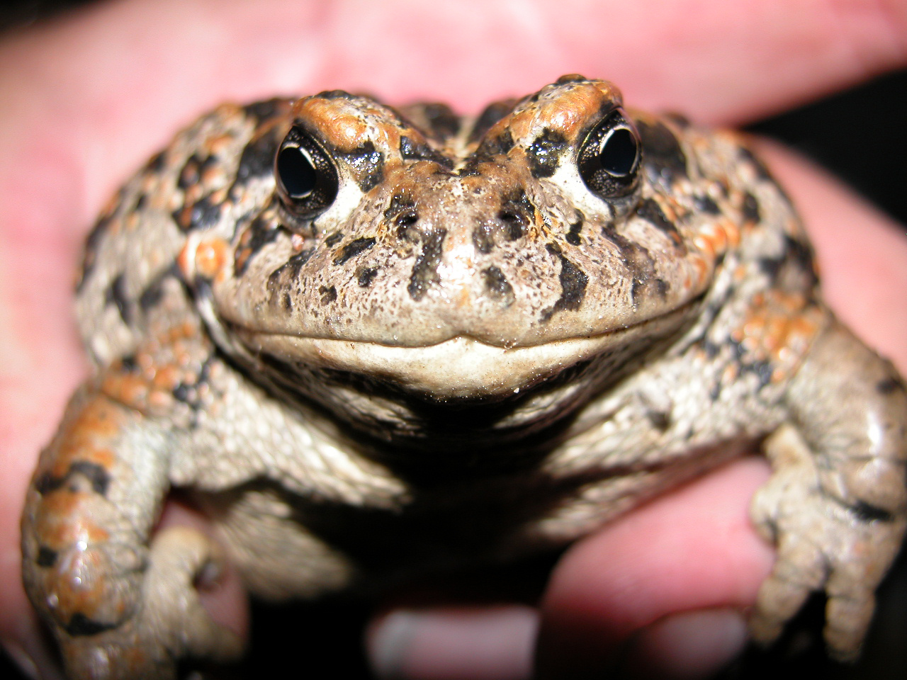 By restoring riparian areas of the Amargosa River, Nevada landowners helped protect populations of the Amargosa toad. U.S. Fish and Wildlife Service photo.